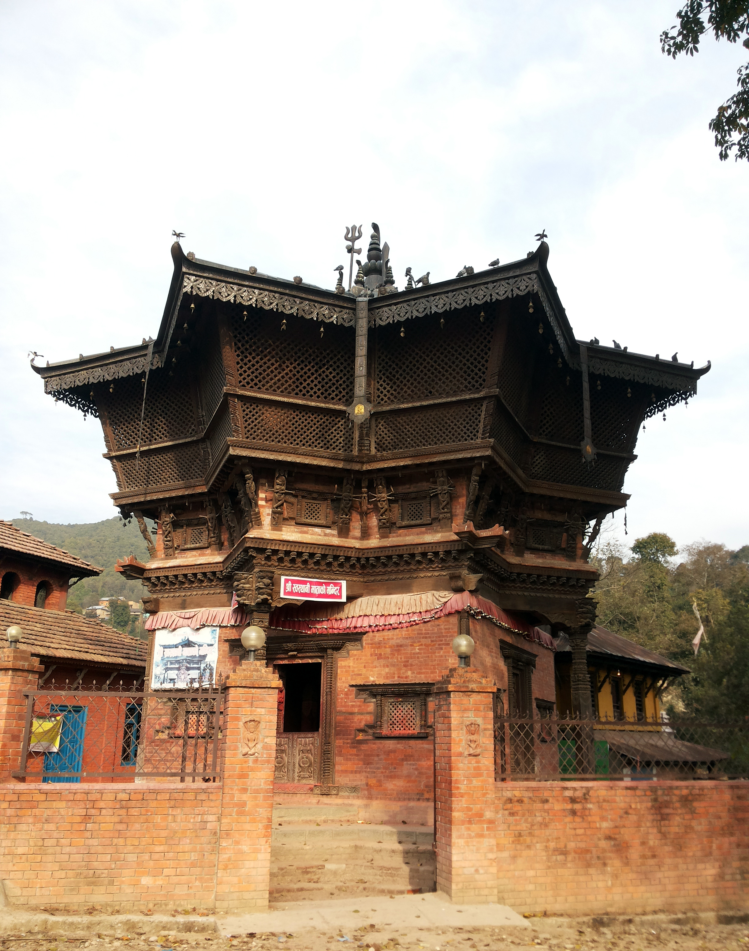 Swasthani temple in Kathmandu.